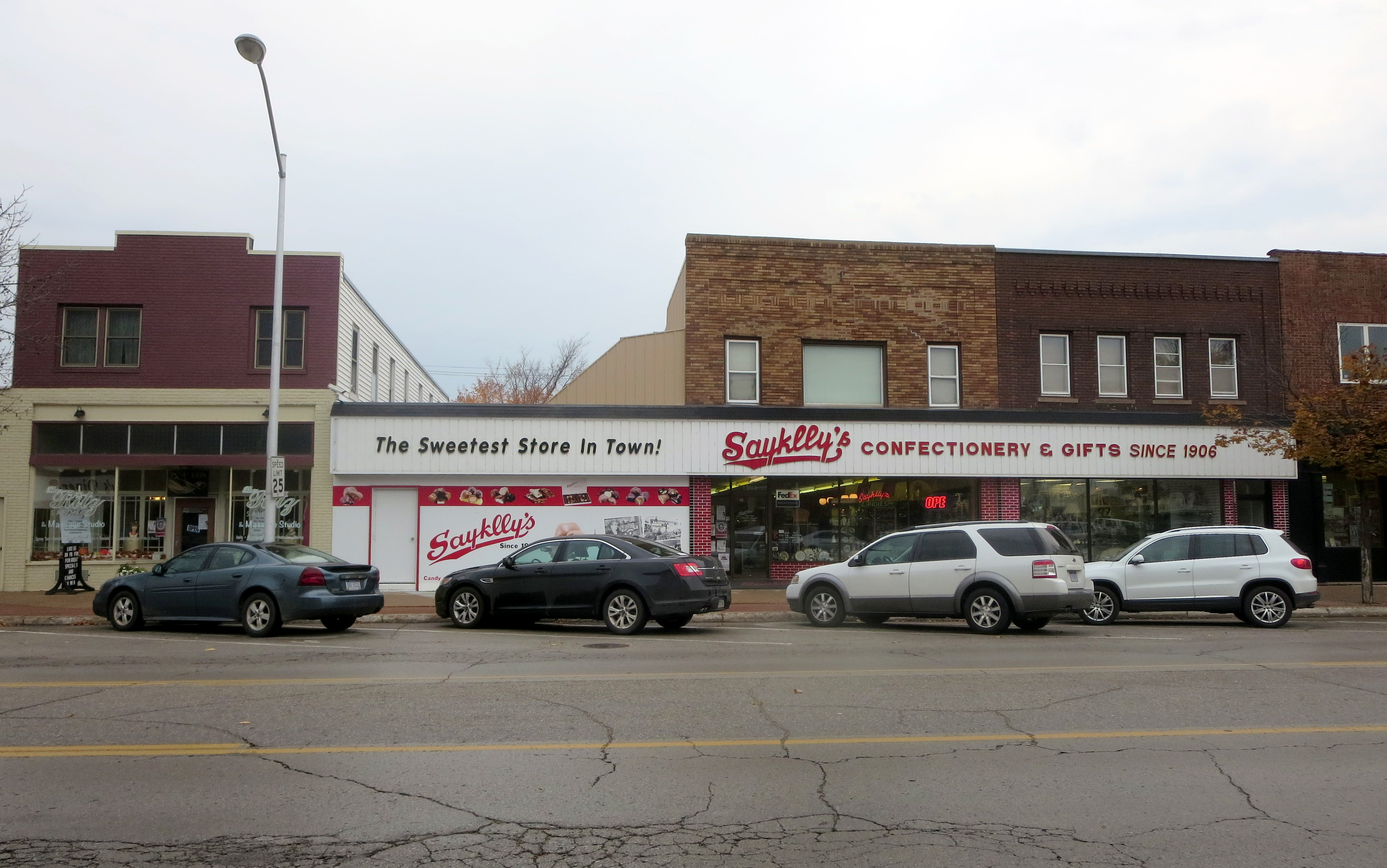 Escanaba Central Historic District